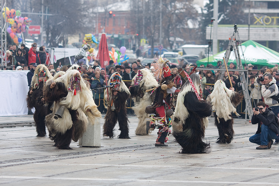 Kuker masks. XIX International Festival of Masquerade Games Pernik, 2010